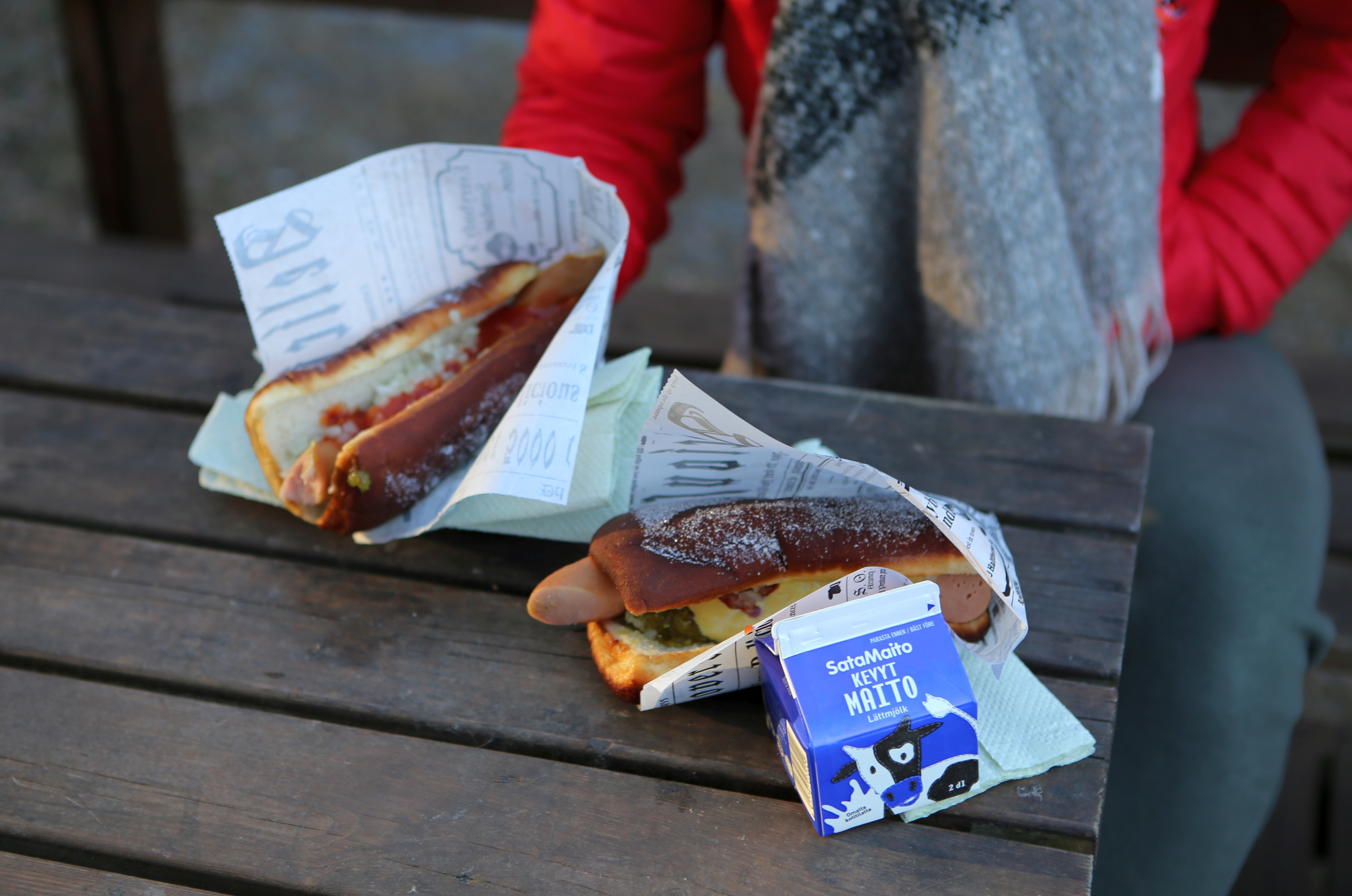 Two Kuuma koiras, served in the traditional way in a paper wrap, eaten outside and with a carton of milk.